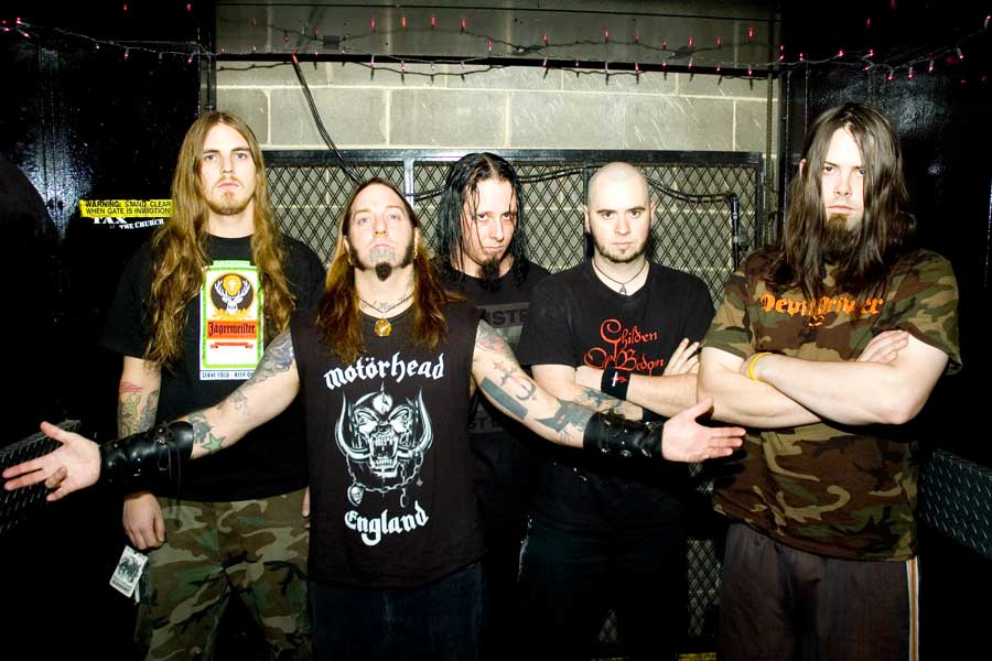 DevilDriver, House of Blues, Chicago, IL, USA. Photo by Adam Bielawski